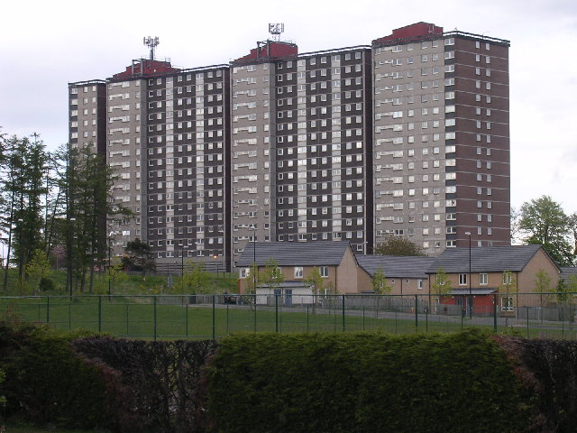 Ardler's last multi. Six of these 1960's multis once dominated the skyline in the north west of Dundee. (This building has since been demolished).